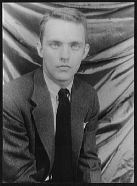 Title: Portrait of Frederick Buechner Abstract: 1 photographic print : gelatin silver.